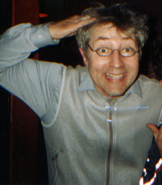 Emo Philips at the Go Room in Olympia, Washington